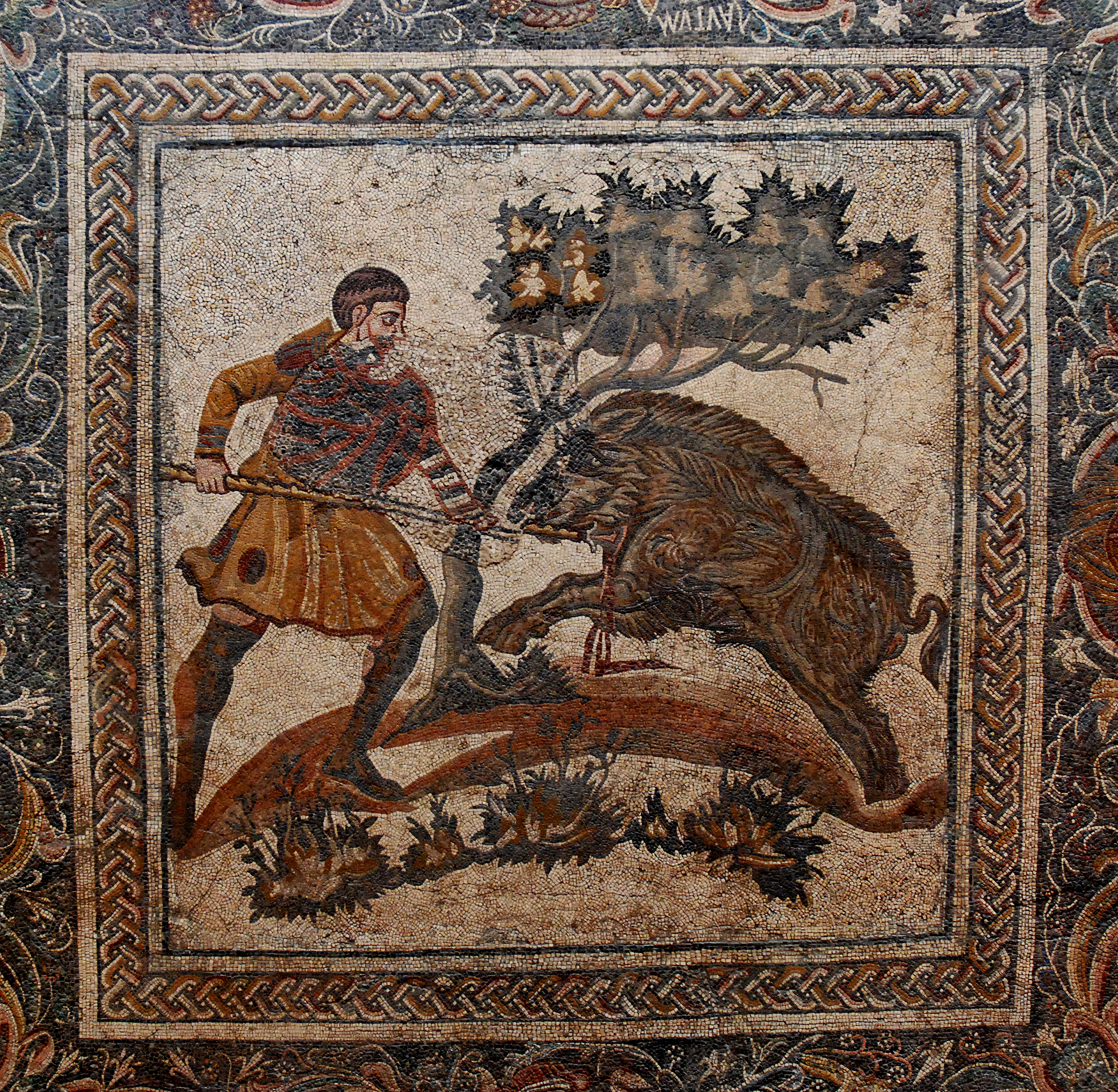 A man hunting a boar. Partial view of a Roman mosaic.